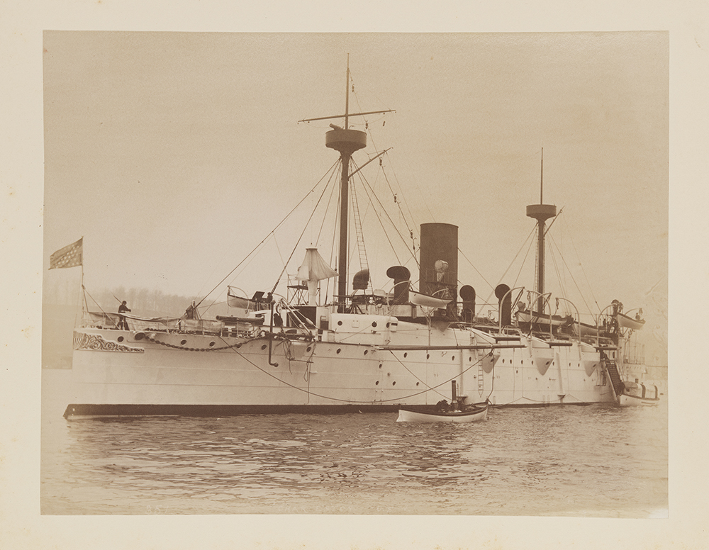 Title: 'Charleston' U.S.N. Creator: Loeffler, 1864-1946 Date: April 27, 1893 Part Of: Columbian Naval Parade Place: New York Physical Description: 1 photographic print: albumen, part of 1 volume (48 albumen prints); 17 x 22 cm on 28 x 34 cm mount File: ag1982_0031_17_opt.jpg Rights: Please cite DeGolyer Library, Southern Methodist University when using this file. A high-resolution version of this file may be obtained for a fee. For details see the web page. For other information, . For more information, View the full series: naval parade/field/all/mode/all/conn/and/cosuppress/ View North America: Photographs, Manuscripts, and Imprints